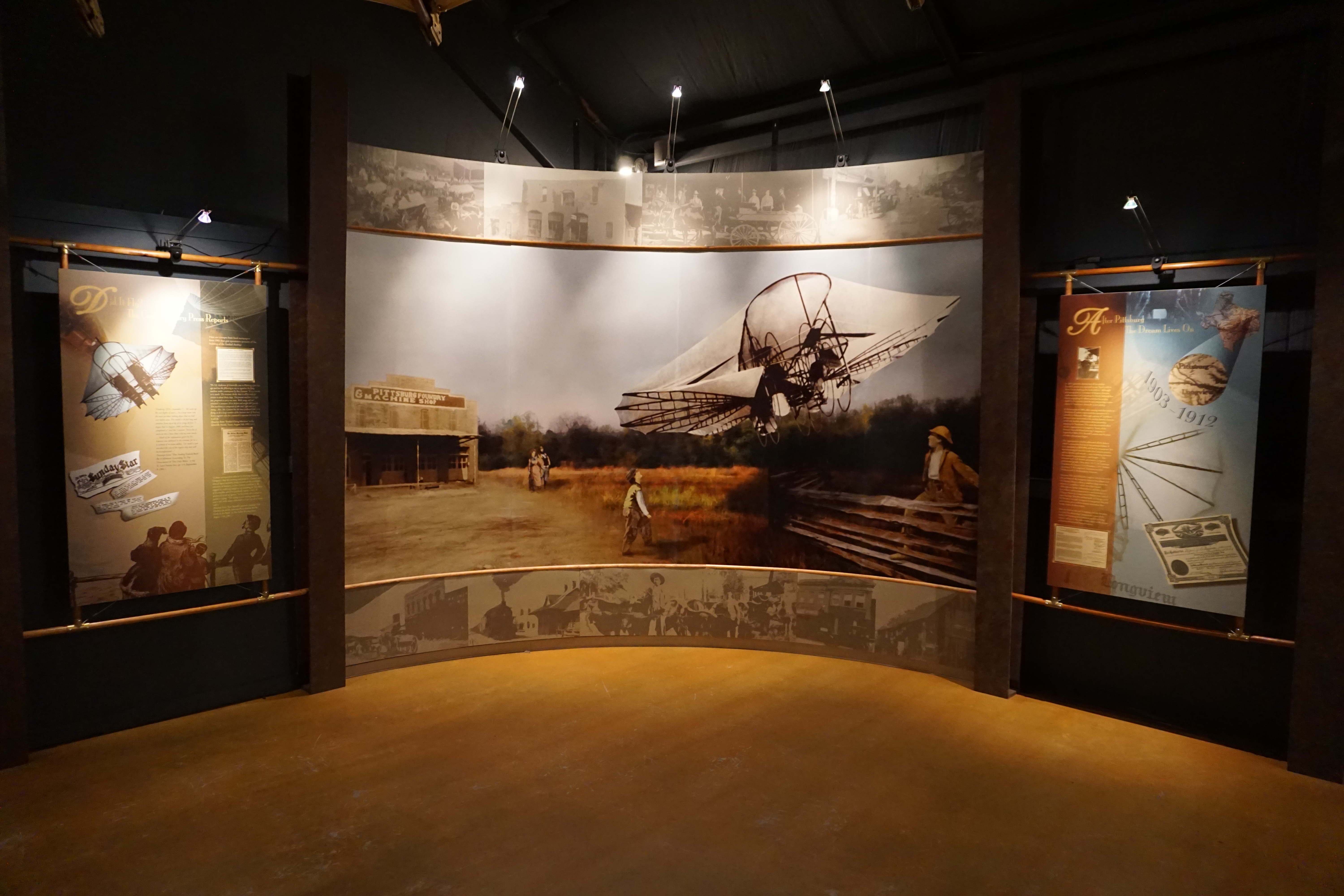 The Ezekiel Airship exhibit at the Northeast Texas Rural Heritage Center and Museum in Pittsburg, Texas (United States).